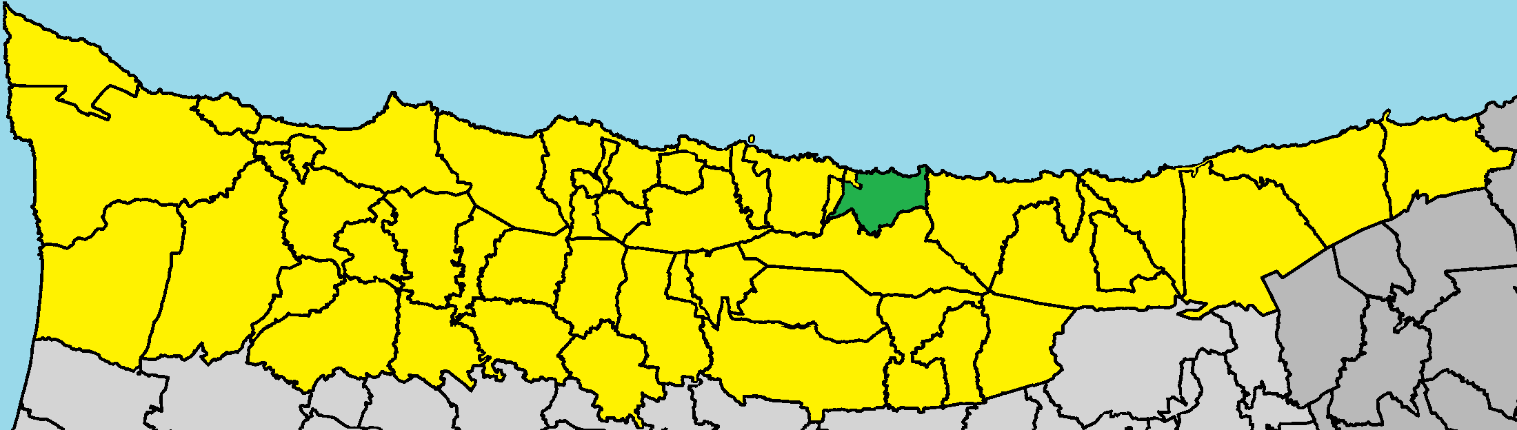 Kazafani in Kyrenia District (de jure).